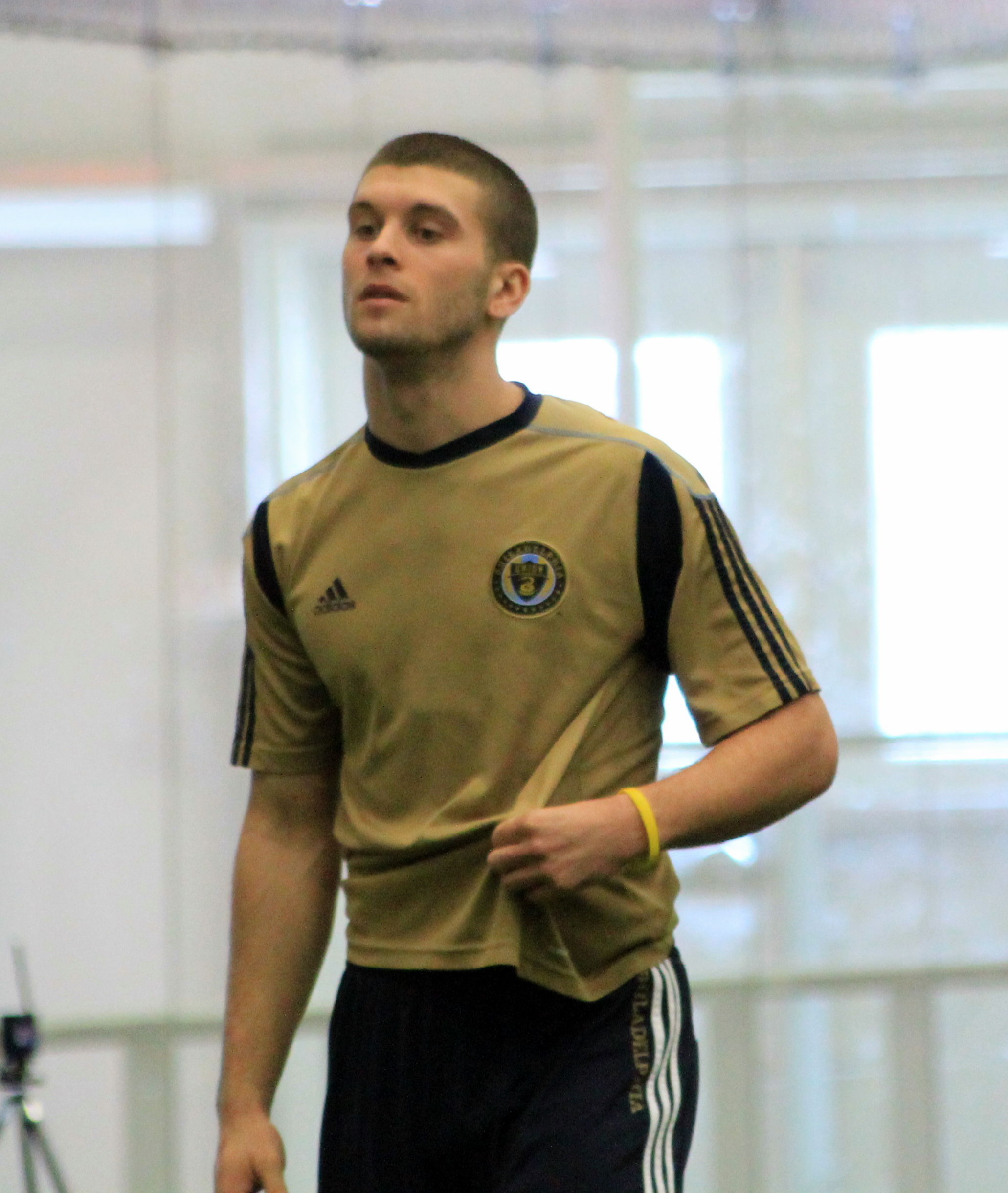 Ryan Richter participating in preseason training, with the Philadelphia Union, at YSC Sports in Wayne. January 27, 2011.